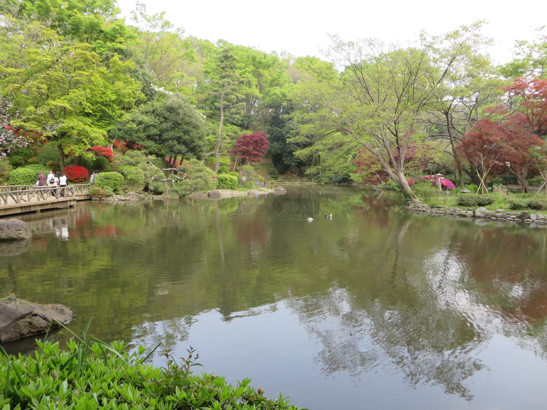 Arisugawa Park Tokyo, pond